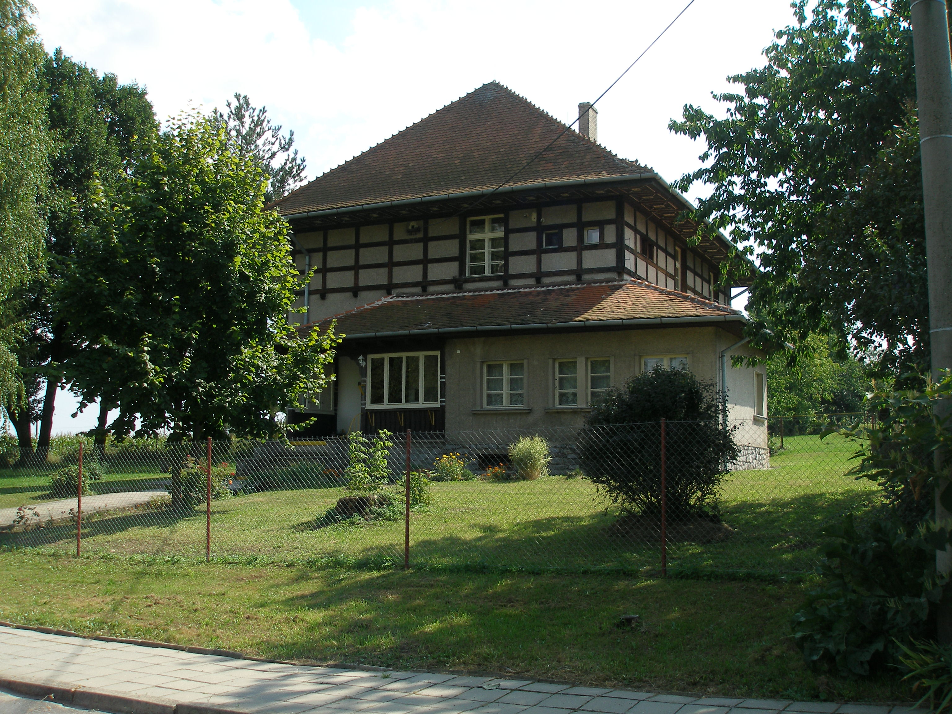 Dešná (Jindřichův Hradec district) - The nursery school